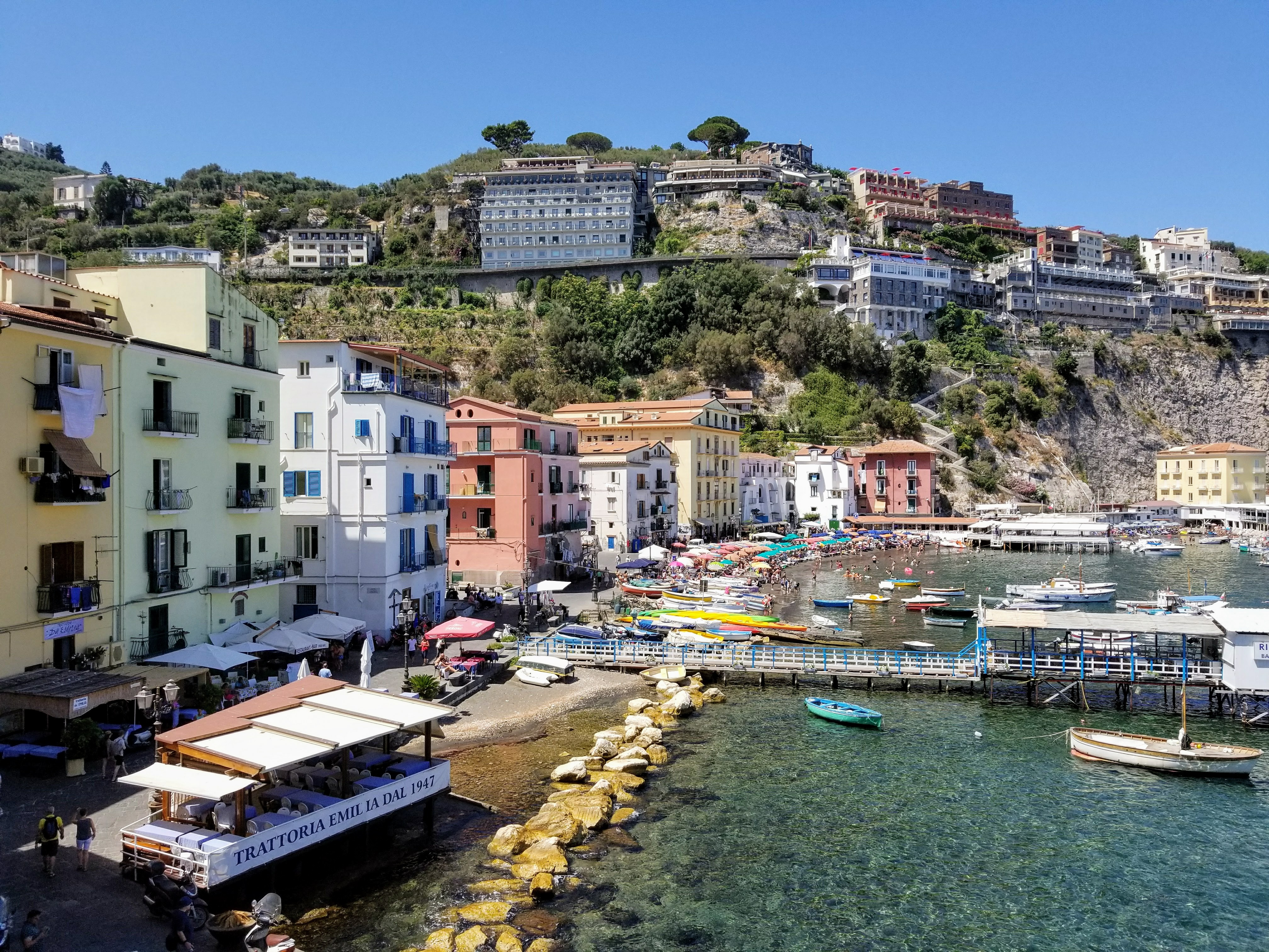 A view of Marina Grande from a walkway underneath the Sant'Anna Institute